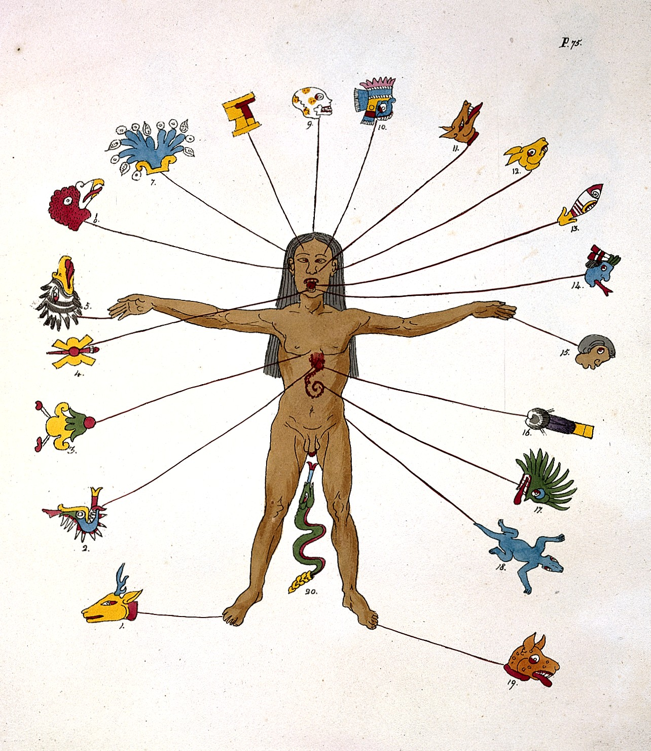 Aztec zodiac man, facsimile of original painting or codex Rare Books Keywords: Aztec Medicine; Astrology